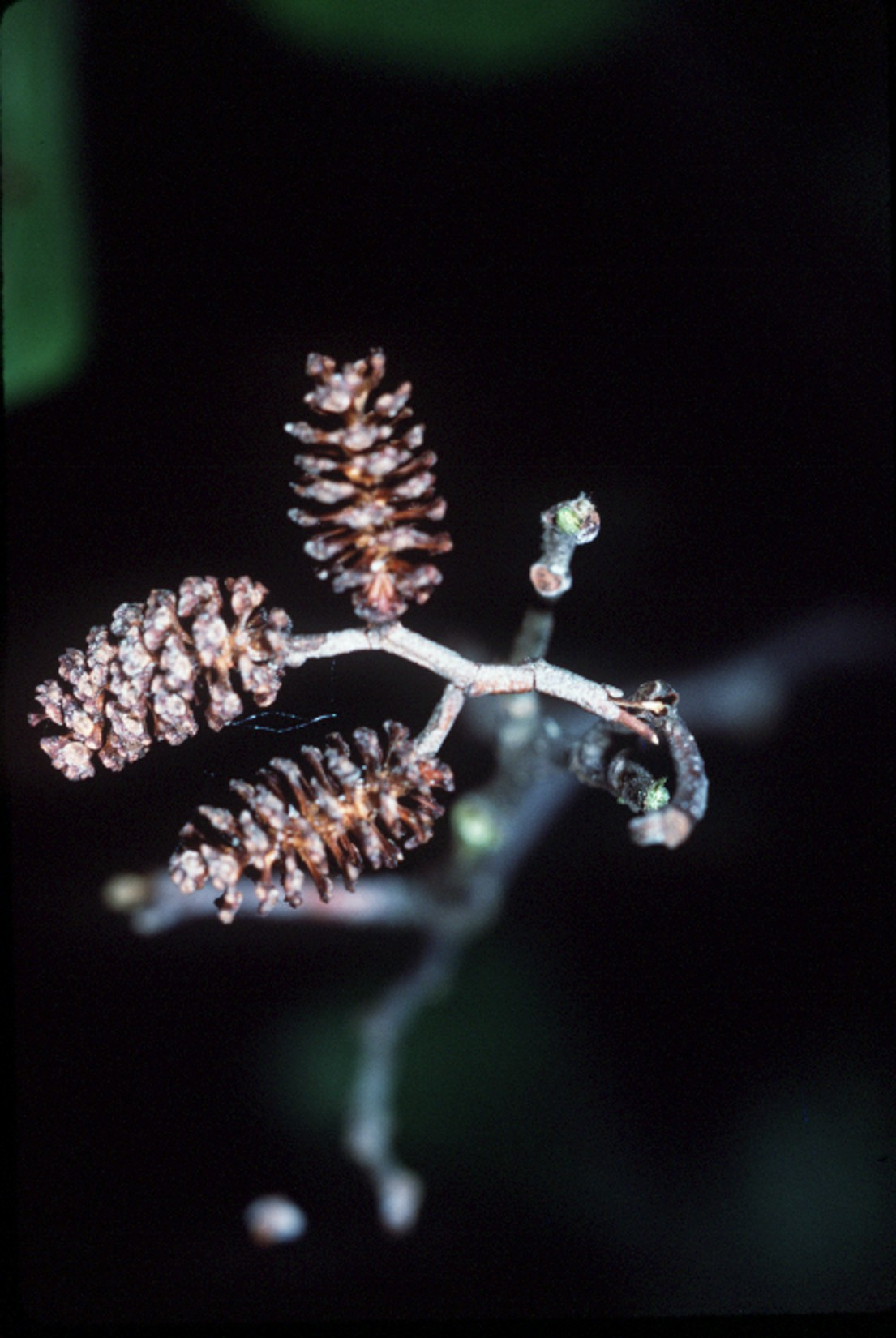 Hazel Alder. Family Betulaceae. Photograph of empty seed cones.